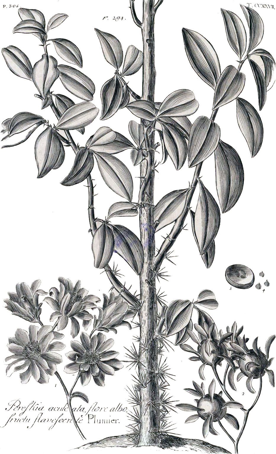 Pereskia aculeata. Tab 277 in Hortus Elthamensis